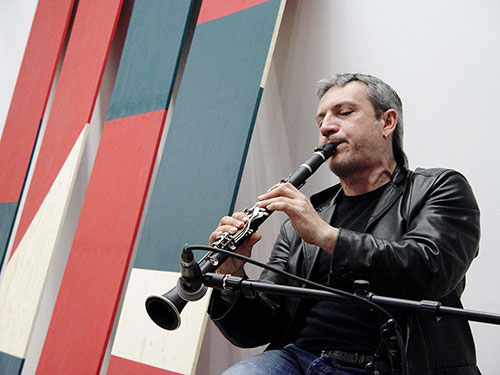 Nico Gori playing in Aarhus, Denmark 2015